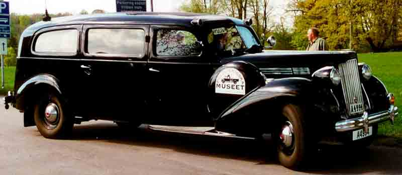 Packard Seventeenth Series One Twenty Police 1939 on long wheel base commercial chassis (model 1701-A)